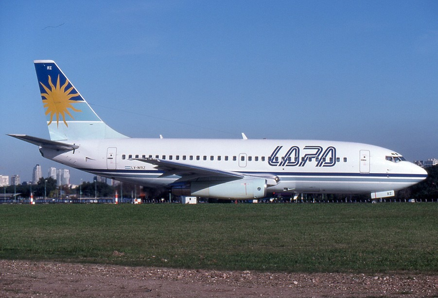 A Boeing 737-204C of LAPA at Jorge Newbery Airpark. This aircraft crashed in Buenos Aires on Aug 31, 1999 killing 65 people